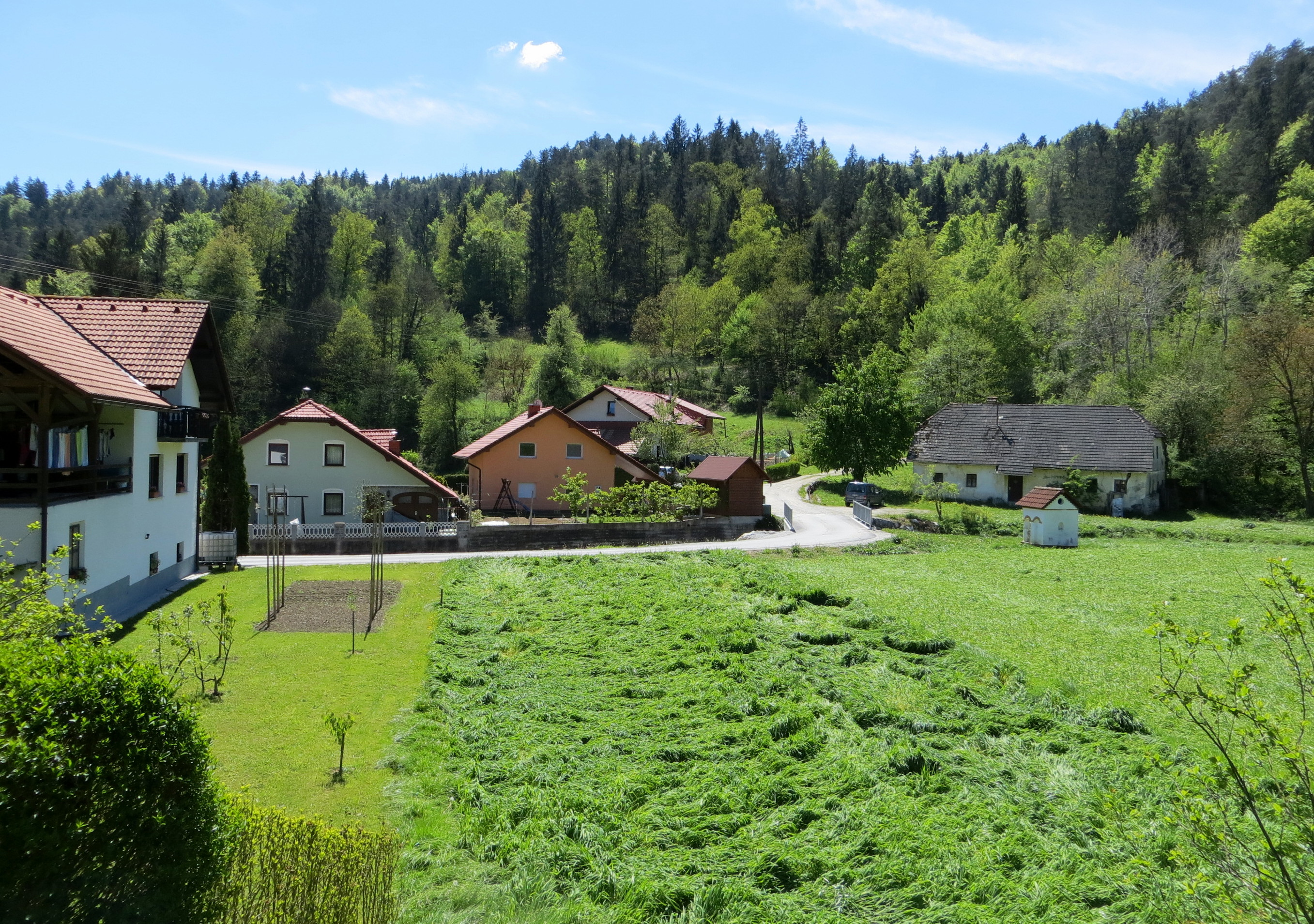 Štangarske Poljane, Municipality of Šmartno pri Litiji, Slovenia